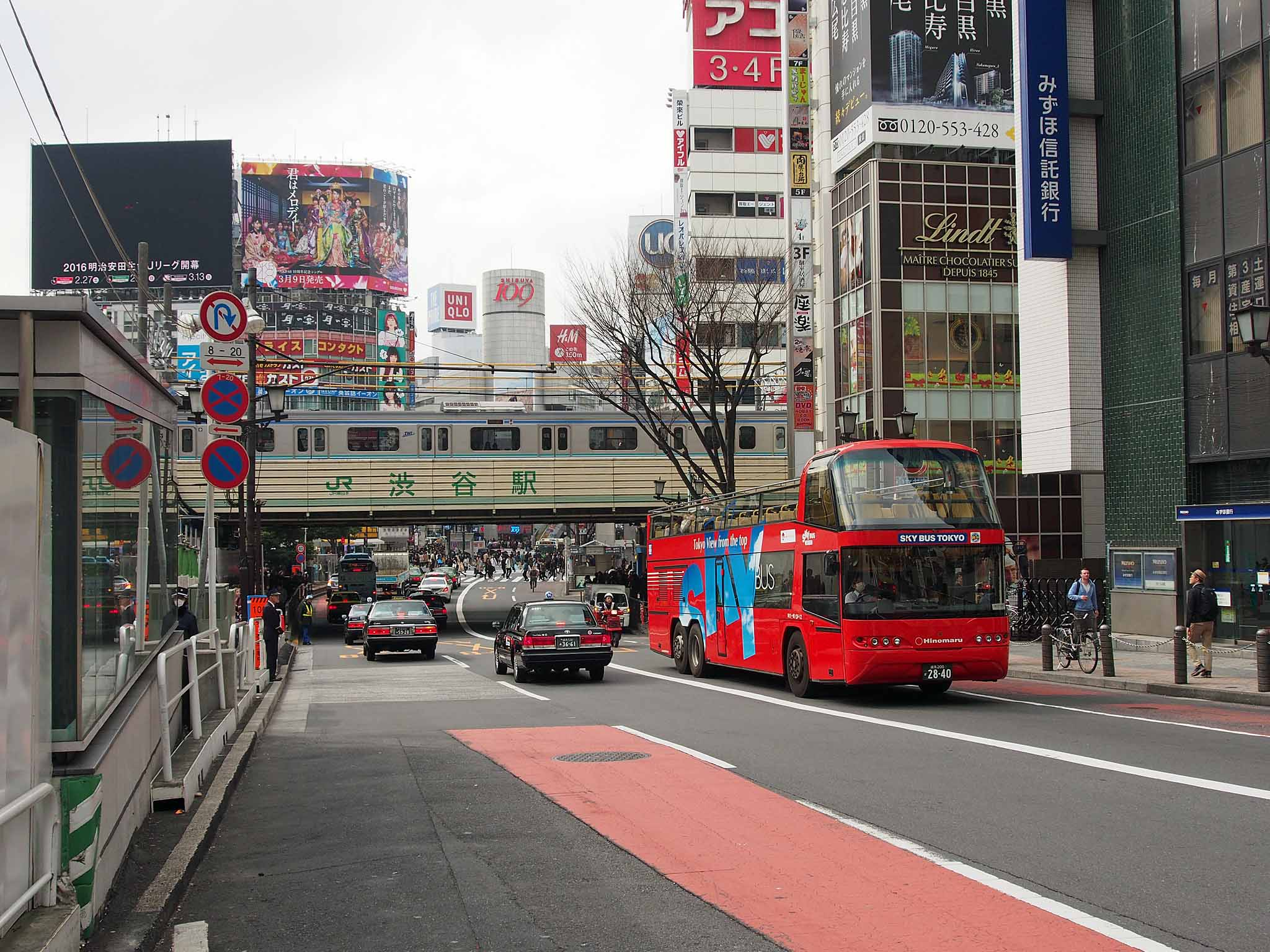 "Sky Bus Tokyo" Omotesando and Shibuya Course, throuth Shibuya Station. Model: Neoplan Skyliner License plate: TKN200 KA2840 Place: Neighbor of Shibuya Station East, Shibuya Ward, Tokyo Japan